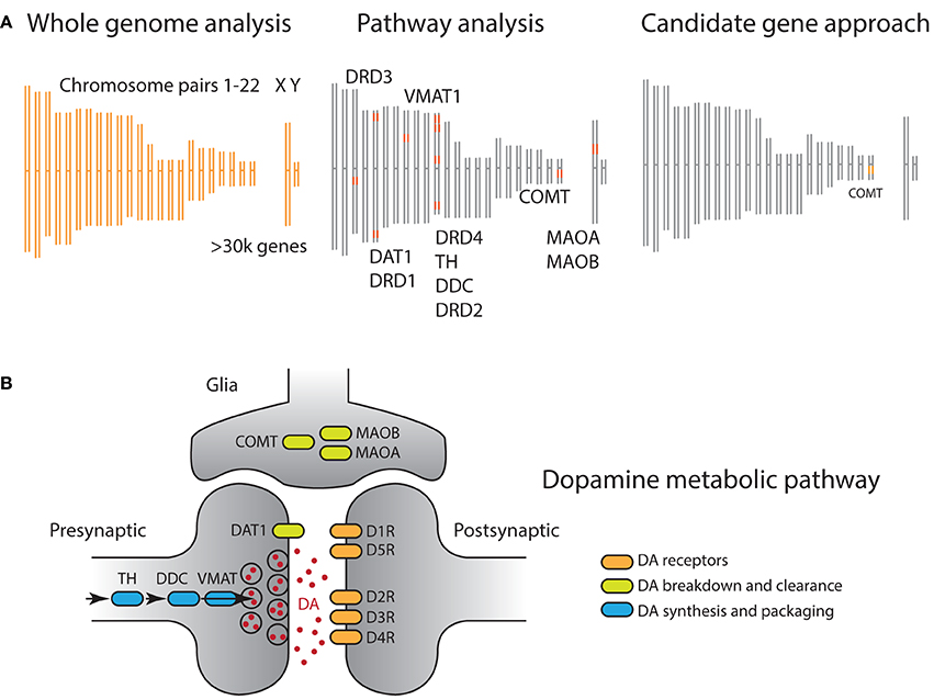 (A) Comparison of genomic analysis approaches illustrated on a DNA schematic, including 22 pairs of autosomal and sex chromosomes. Orange shaded regions indicate genetic materials used for analysis. (Left) GWAS analyses assess association of phenotype of interest with all sequenced SNPs, often hundreds of thousands, independently. Hence all chromosomes are shaded orange. (Right) On the other side of the technical spectrum, candidate gene approaches focus on a single polymorphism, often well motivated by prior biological data. In this example, the non-synonymous rs4680 SNP of the COMT gene is selected. (Middle) A pathway approach offers a compromise, where prior biological information is leveraged to define a set of genes, organized around a biological process. In this example, all genes whose products have an impact on dopaminergic neurotransmission are selected. (B) Dopamine metabolic pathway captures the biological process involved in neurotransmission, including dopamine synthesis (blue), dopamine signal transduction (orange), and dopamine transport and clearance (green). In principle, genes that regulate/act on these dopaminergic genes can also be included, although we do not include them here as they have broad functions in the nervous system.